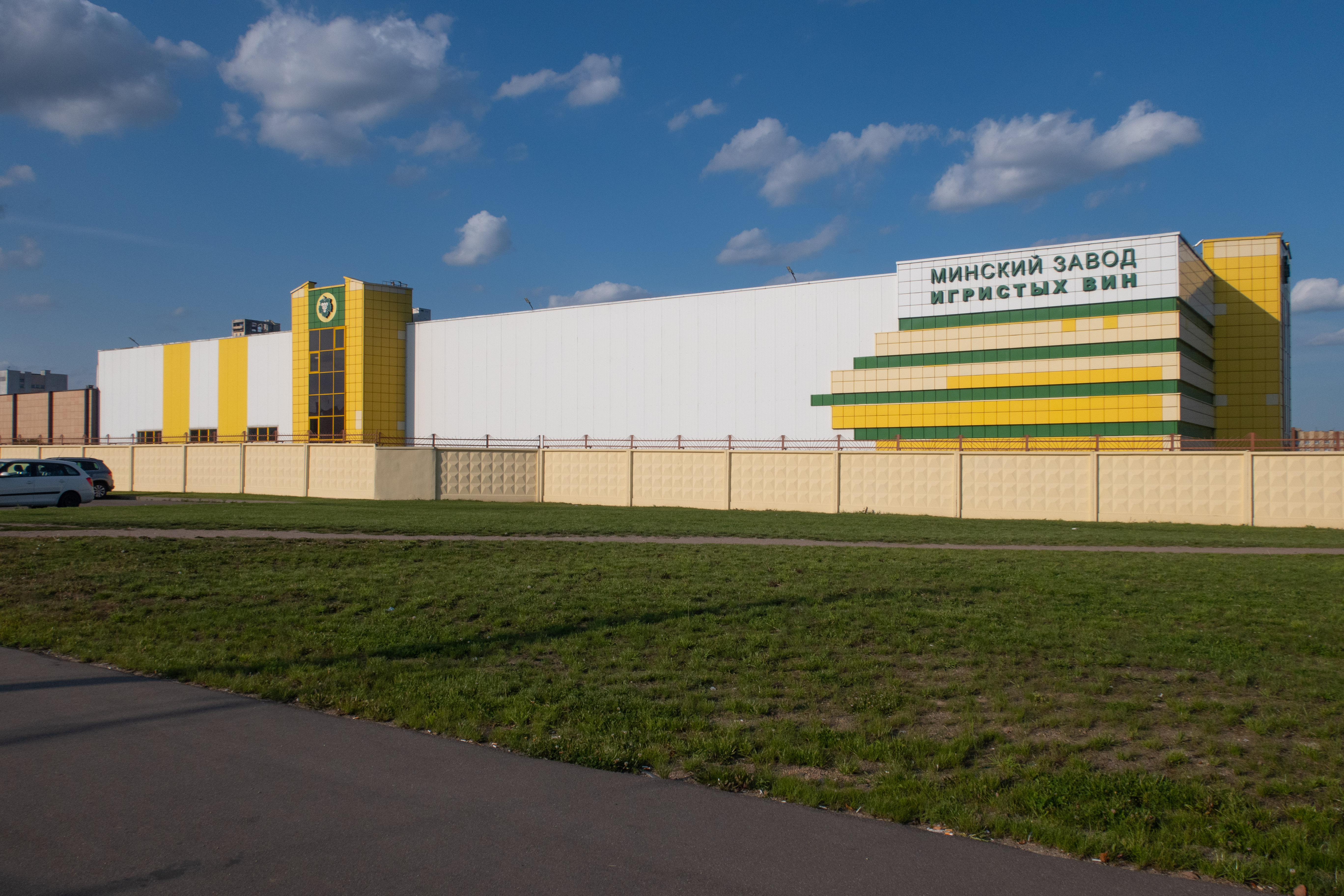 Minsk sparkling wines factory. Minsk, Belarus